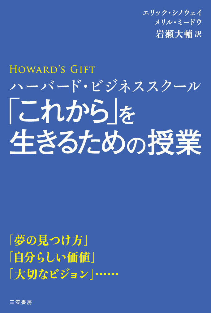 The Japanese translation of Eric Sinoway's book, Howard's Gift.